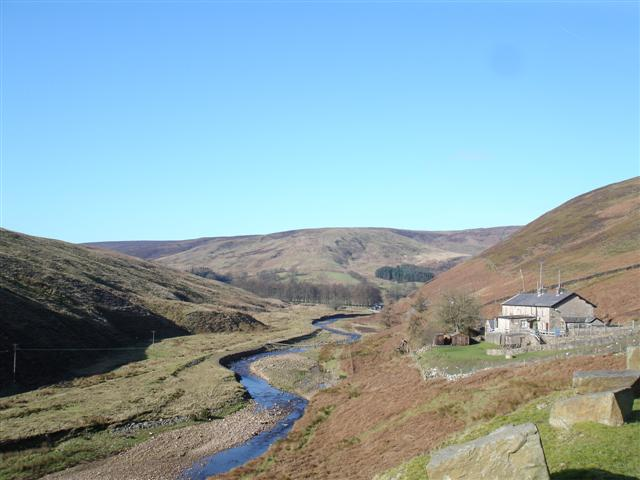 Langden Brook This is Langden Brook in the Vale of Hareden along the Trough of Bowland.